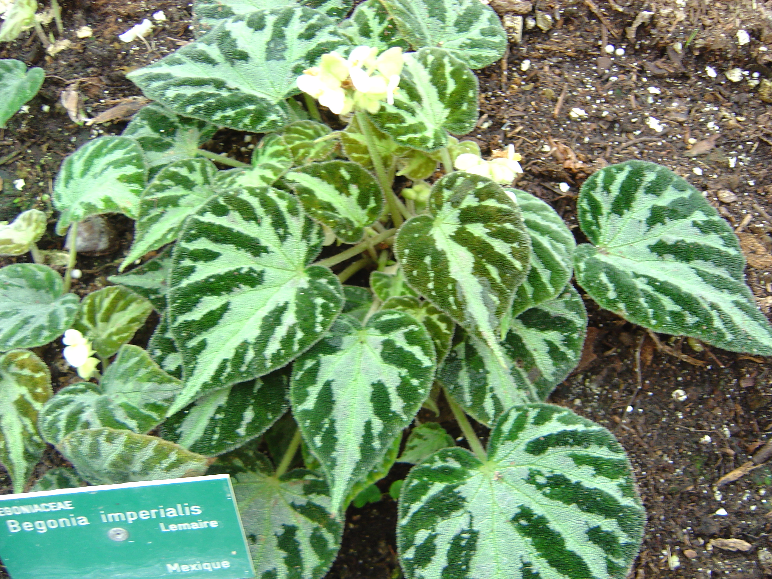 photo catch by myself : Solène Moutardier